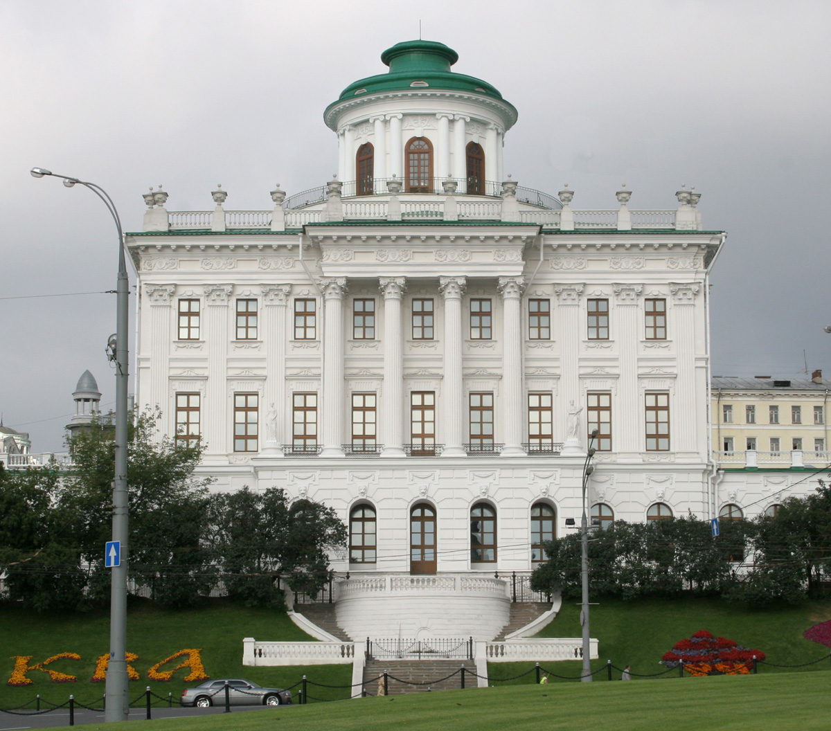 Moscow. House Pashkova